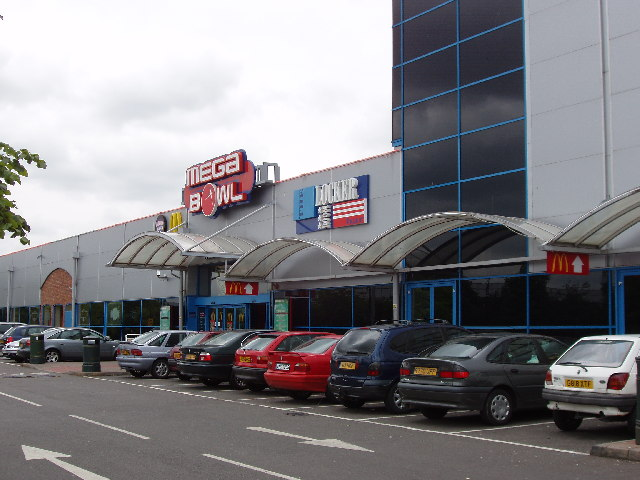 Royale Leisure Park, Park Royal, Acton. This site has a multiplex cinema, discos, bowling, restaurants, bars - all away from any town centre